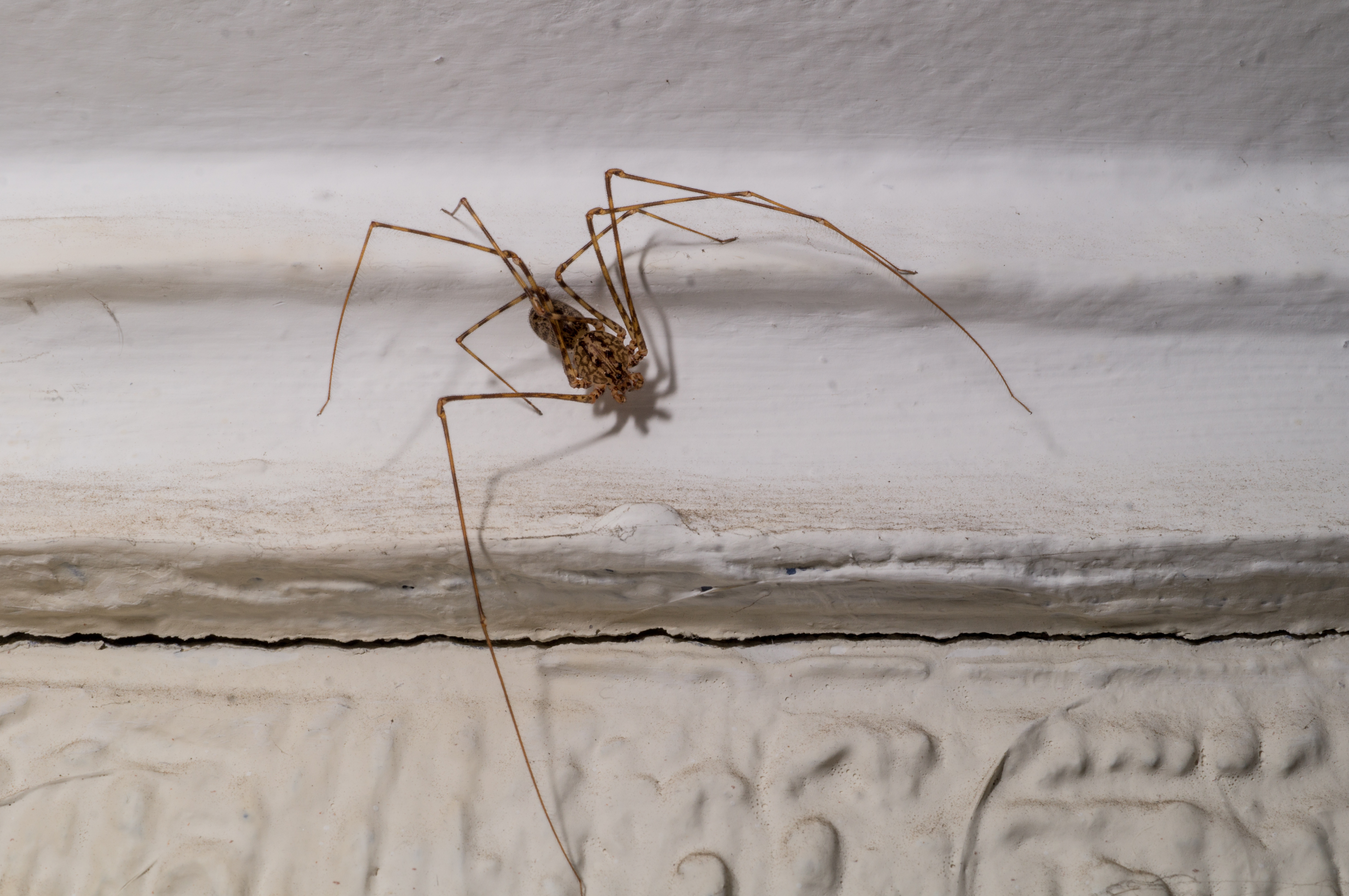 Scytodes glabula